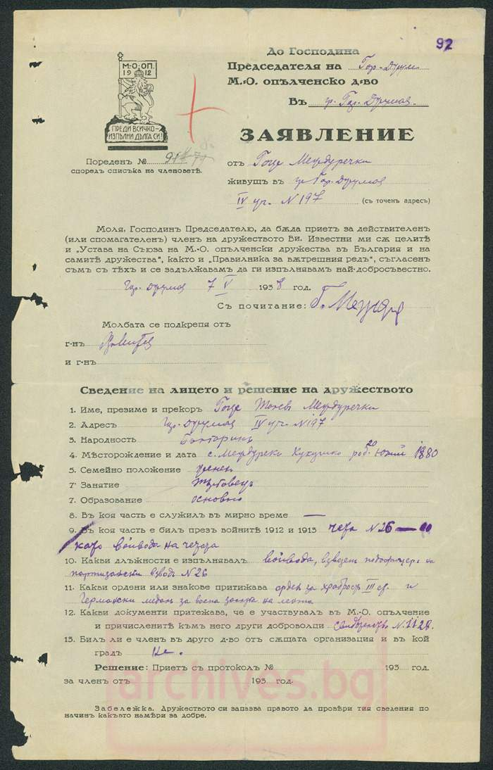 Gotse Mezhdurechki Document